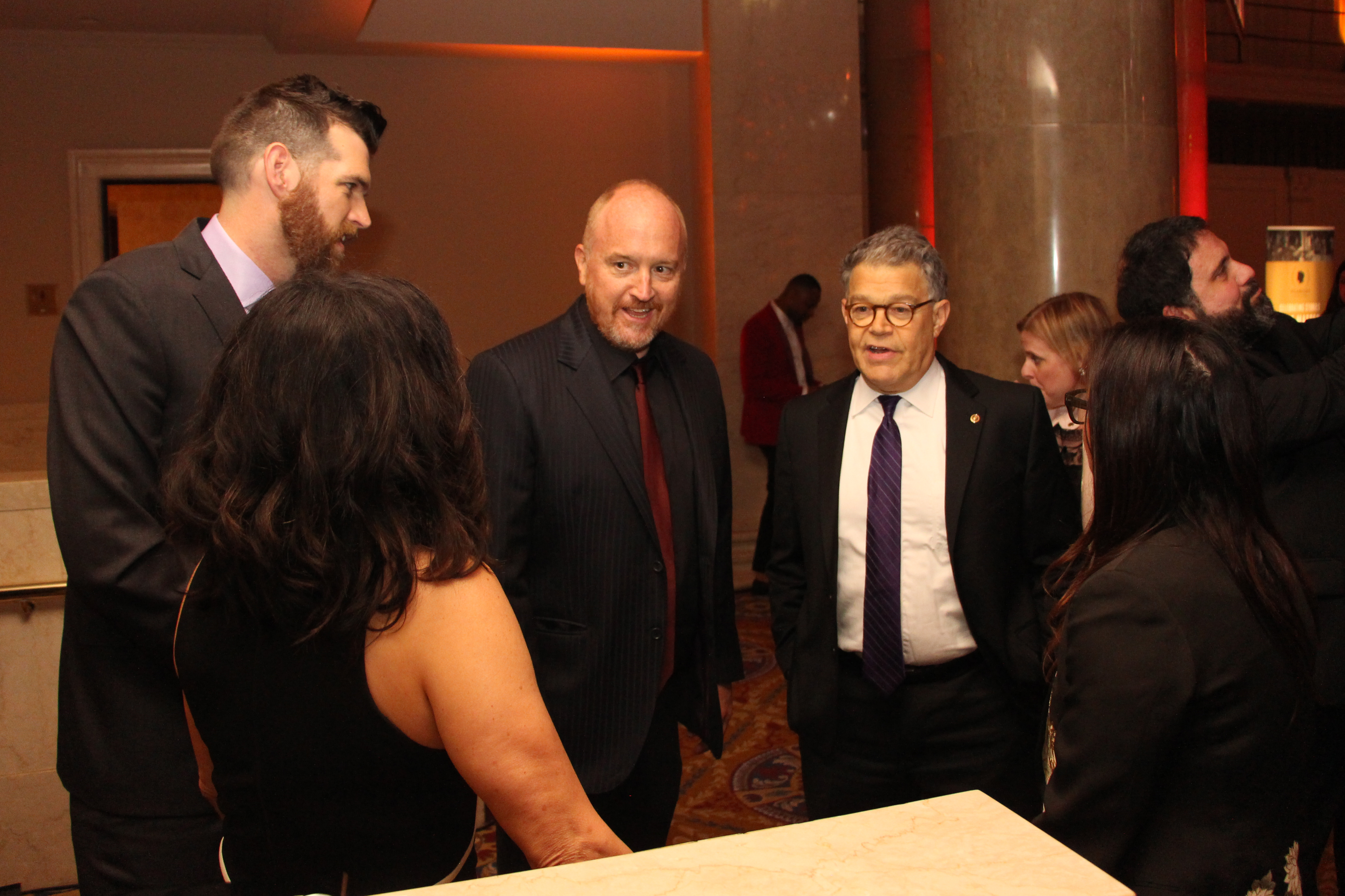 NEW YORK, NY - MAY 20: Timothy Simons, Julia Louis-Dreyfus, Al Franken, and Pamela Adlon at The 76th Annual Peabody Awards Ceremony at Cipriani, Wall Street on May 20, 2017 in New York City.